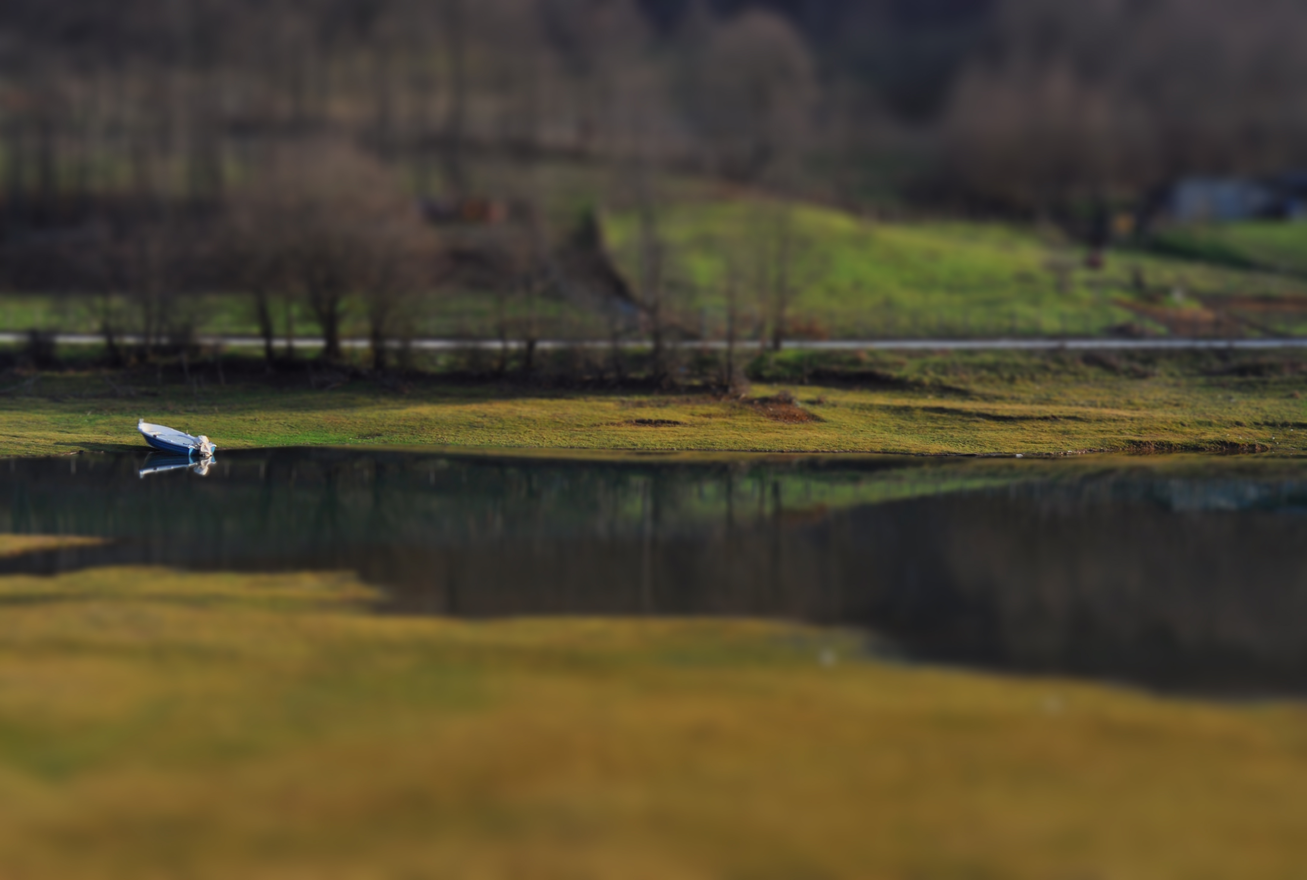 The northest part of Lake Plastira in Greece (with miniature faking or tilt-shift effect) This is a photography of Natura 2000 protected area with ID GR1410001